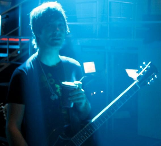 Guitarist Jamie Arentzen pictured before a soundcheck at the Hannah Montana "Best of Both Worlds" Tour in December 2007. This is a cropped, shrunken, and slightly retouched version of the original image.